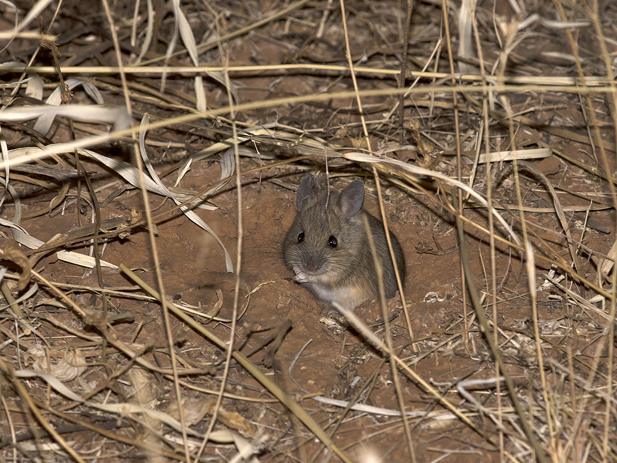 Plains rat (Pseudomys australis) Mount Dare Station South Australia